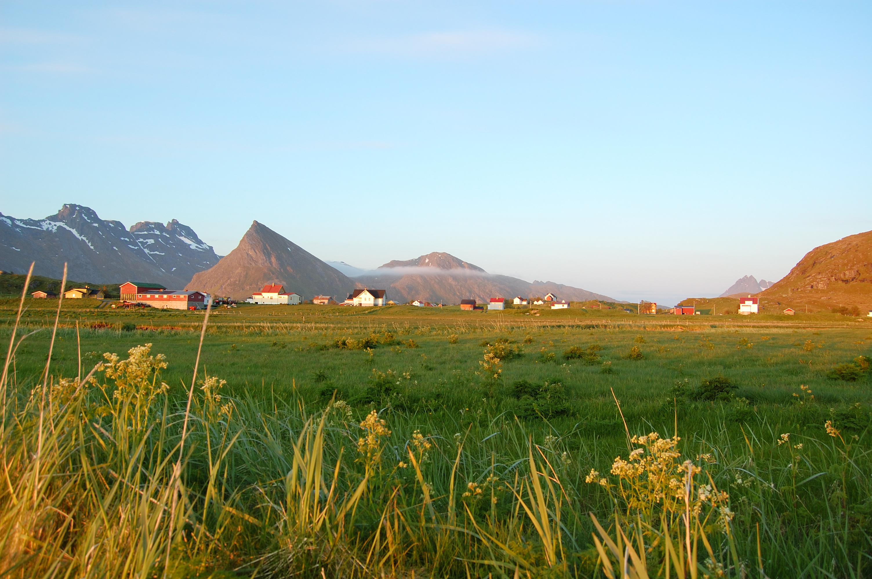 The village of Fedvang in Lofoten, Norway.